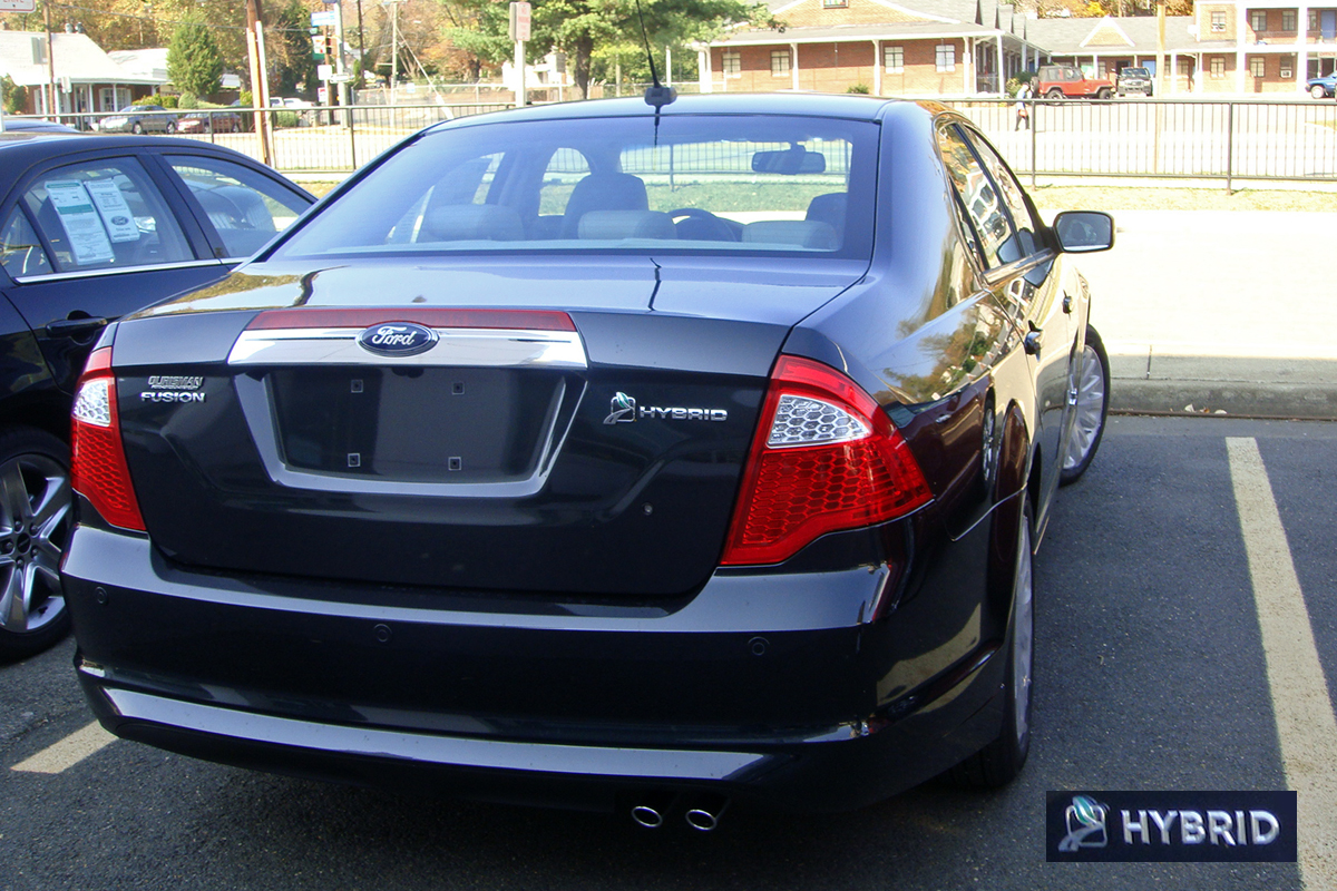 2010 Ford Fusion Hybrid with inset Ford's leaf road logo badge used in its hybrid models, VA, USA